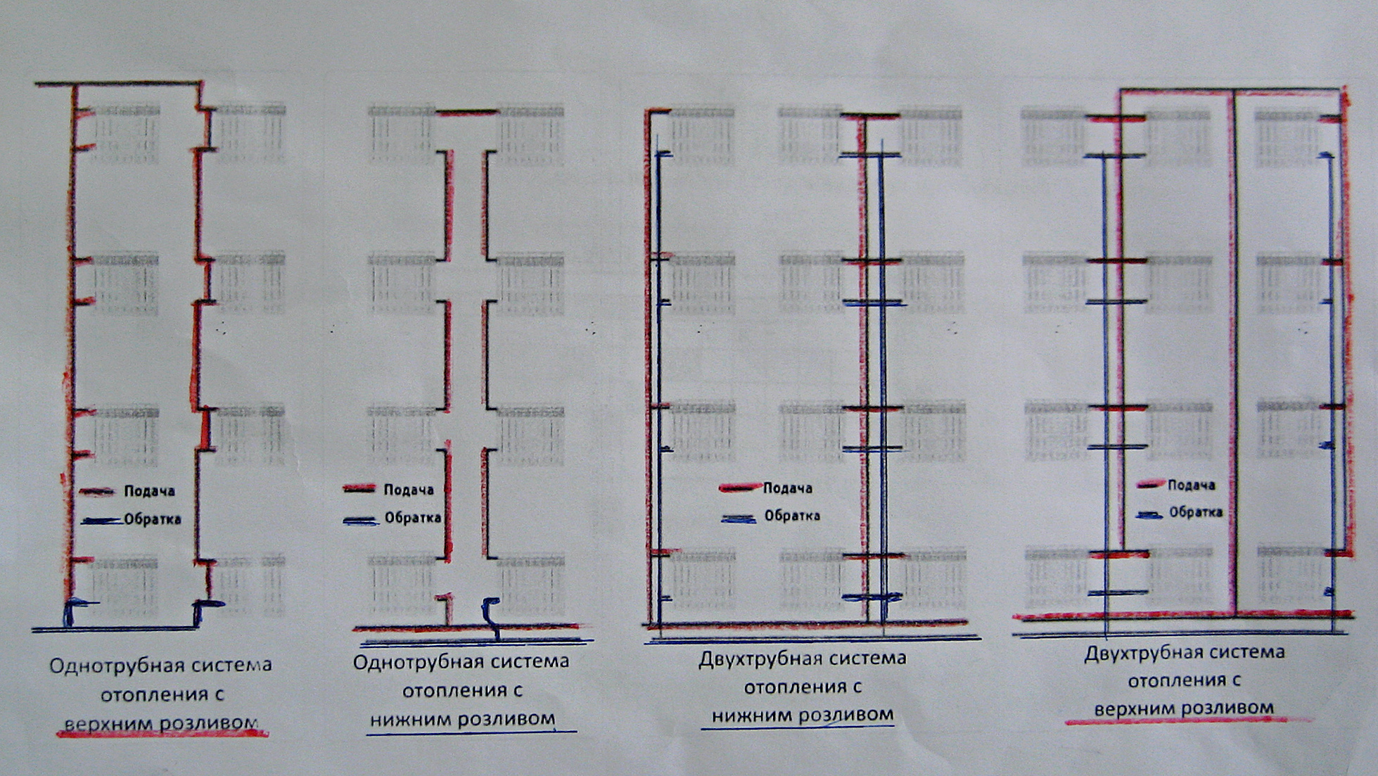 Heating